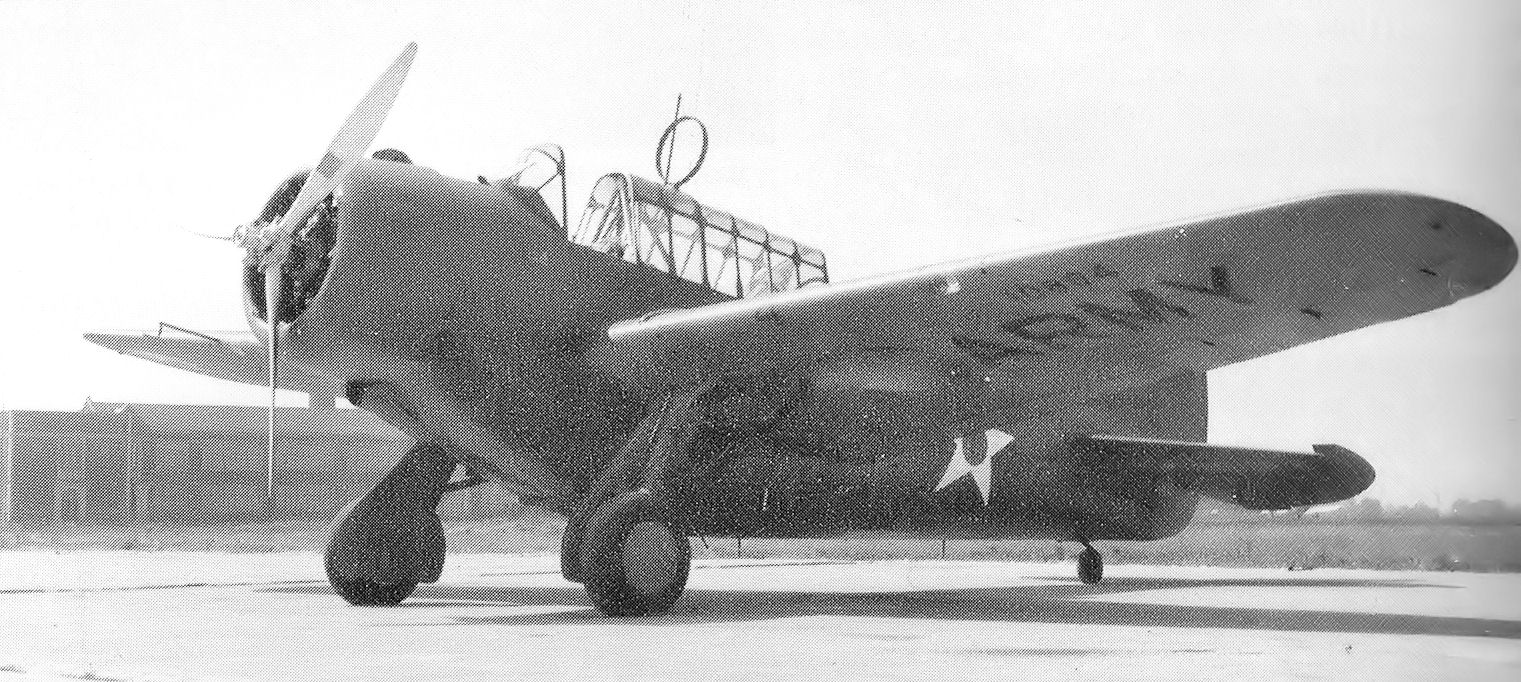 Illinois National Guard 108th Observation Squadron - North American O-47B 39-108-04 probably at Midway airport, 1941